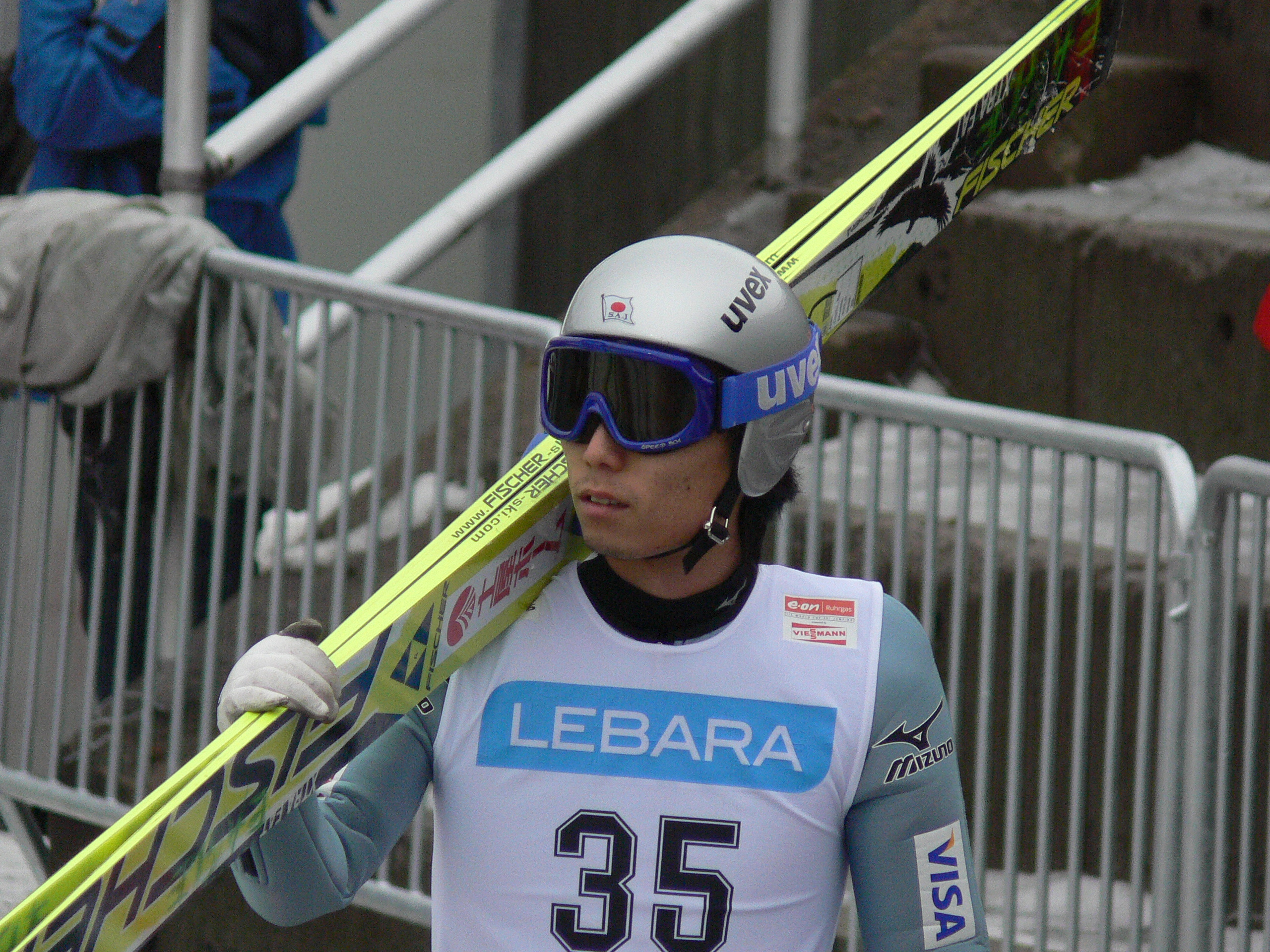 Daiki Ito at World Cup in Holmenkollen, Norway